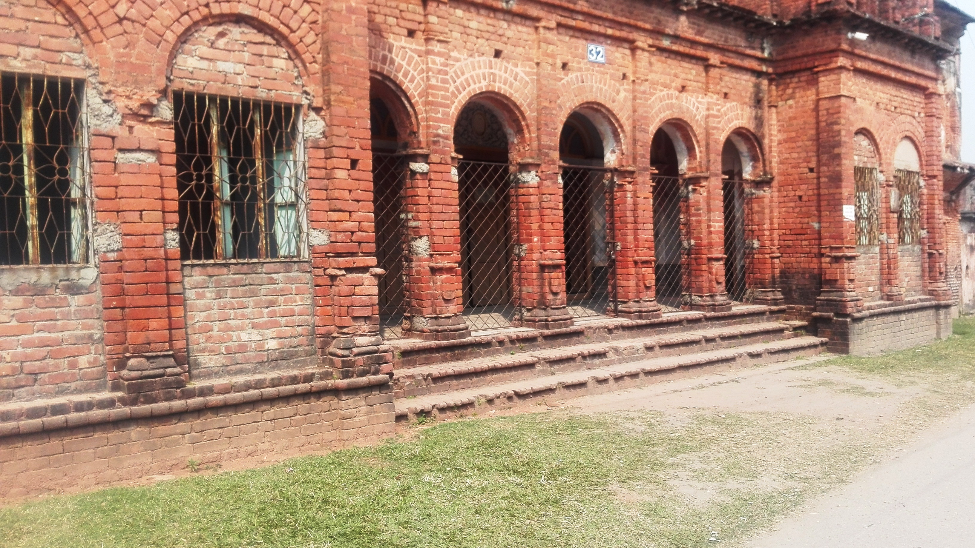 panam city